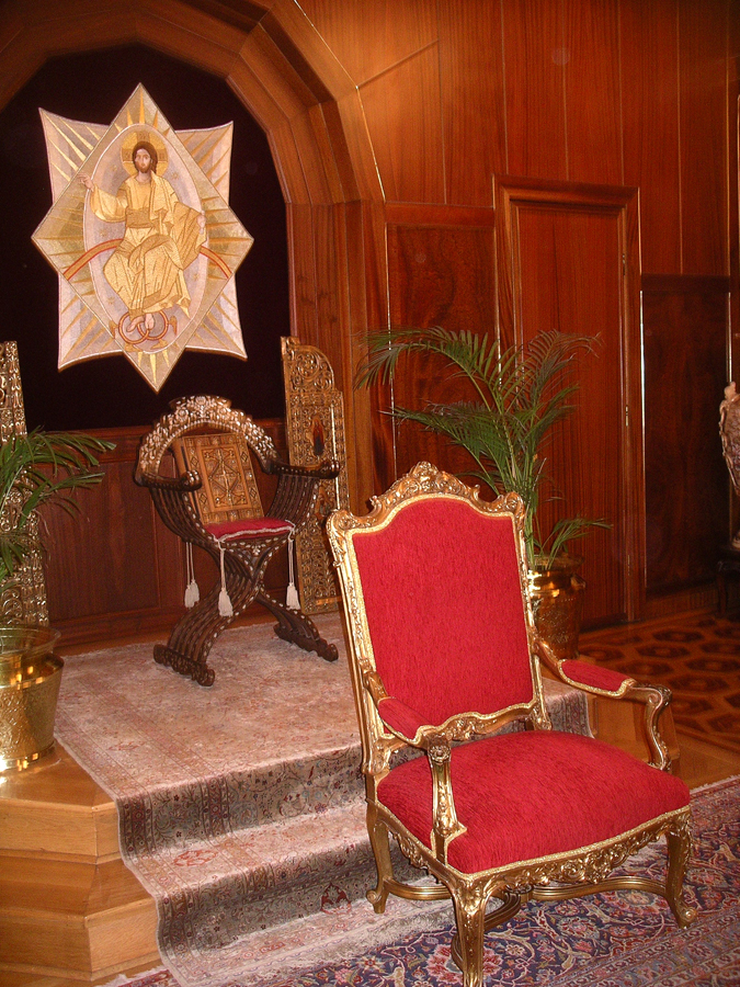 Throne inside the Patriarchate in Istanbul, Turkey